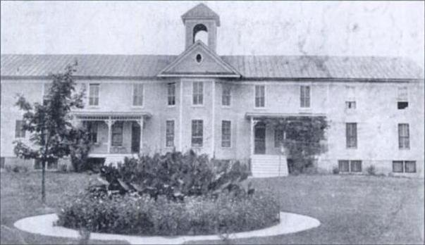 The original building at Shenandoah Valley Academy pictured in 1924. The building had undergone significant add ons since it began its use in 1908.